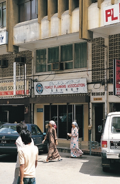 Codrington, Stephen. Planet Geography 3rd Edition (2005) Chapter 1 [1] "Figure 1.8 A major factor in reducing birth rates in stage 3 countries such as Malaysia is the availability of family planning facilities, like this one in Kuala Trengganu."